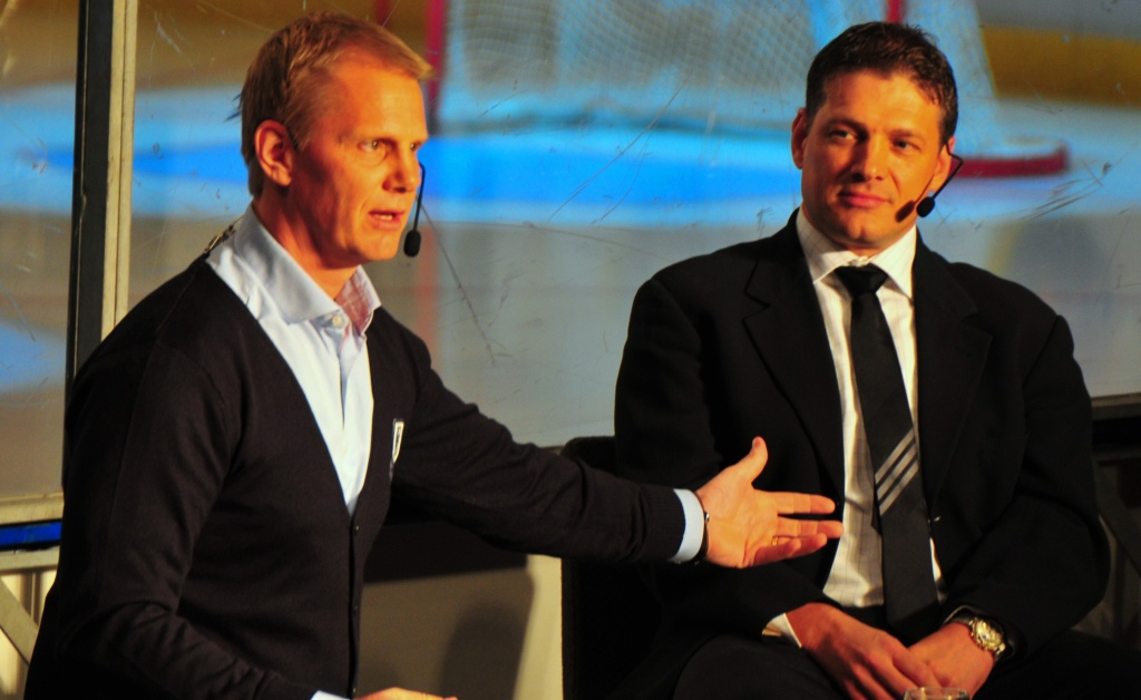 Niklas Wikegård (left) and Håkan Andersson (right) on October 3, 2009.